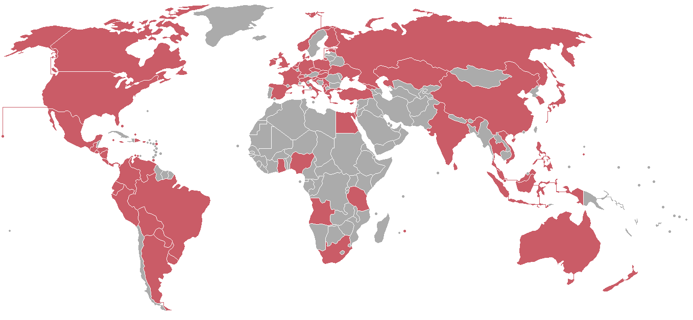 Miss Universe 2008 map